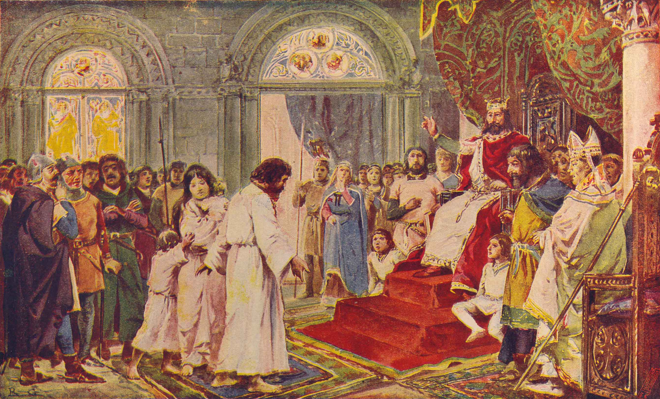 "Egas Moniz before the King of León", by Roque Gameiro, in Quadros da História de Portugal ("Pictures of the History of Portugal", 1917).